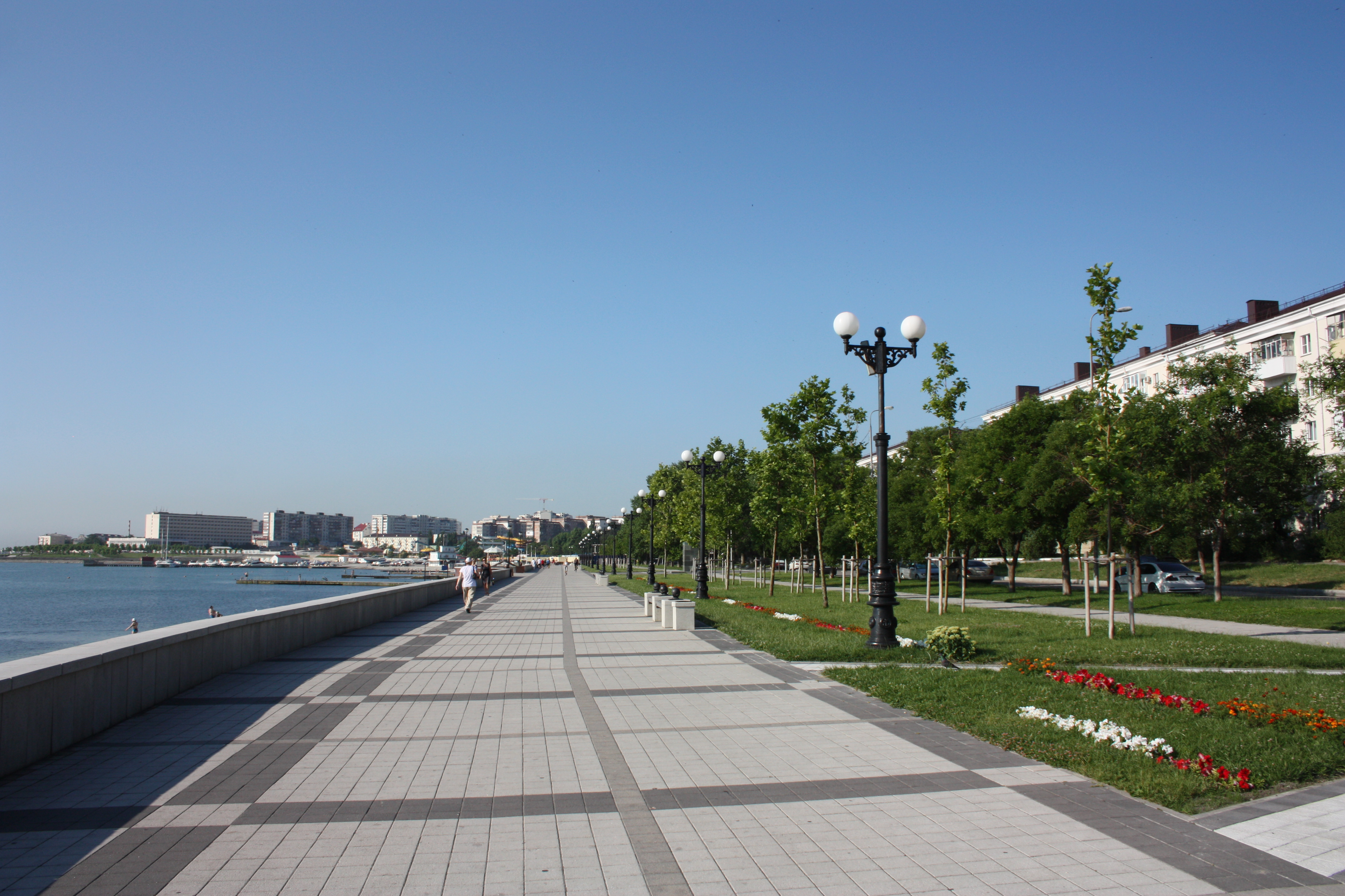 Novorossiysk. Embankment of Admiral Serebryakov